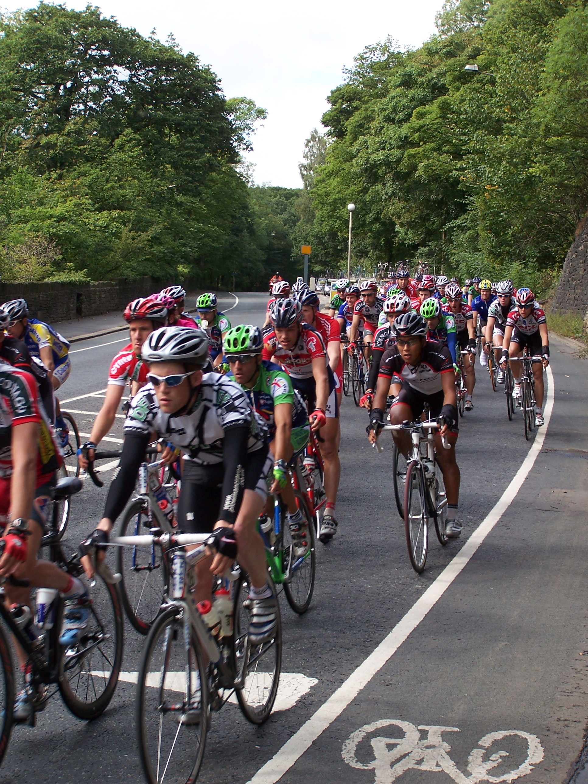 The Tour of Britain cycle race of 2005 passing through Honley, near Huddersfield on stage 3